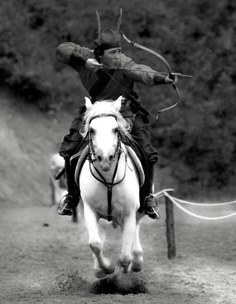 A black-and-white picture that I took while in a hwarang competition in South Korea.